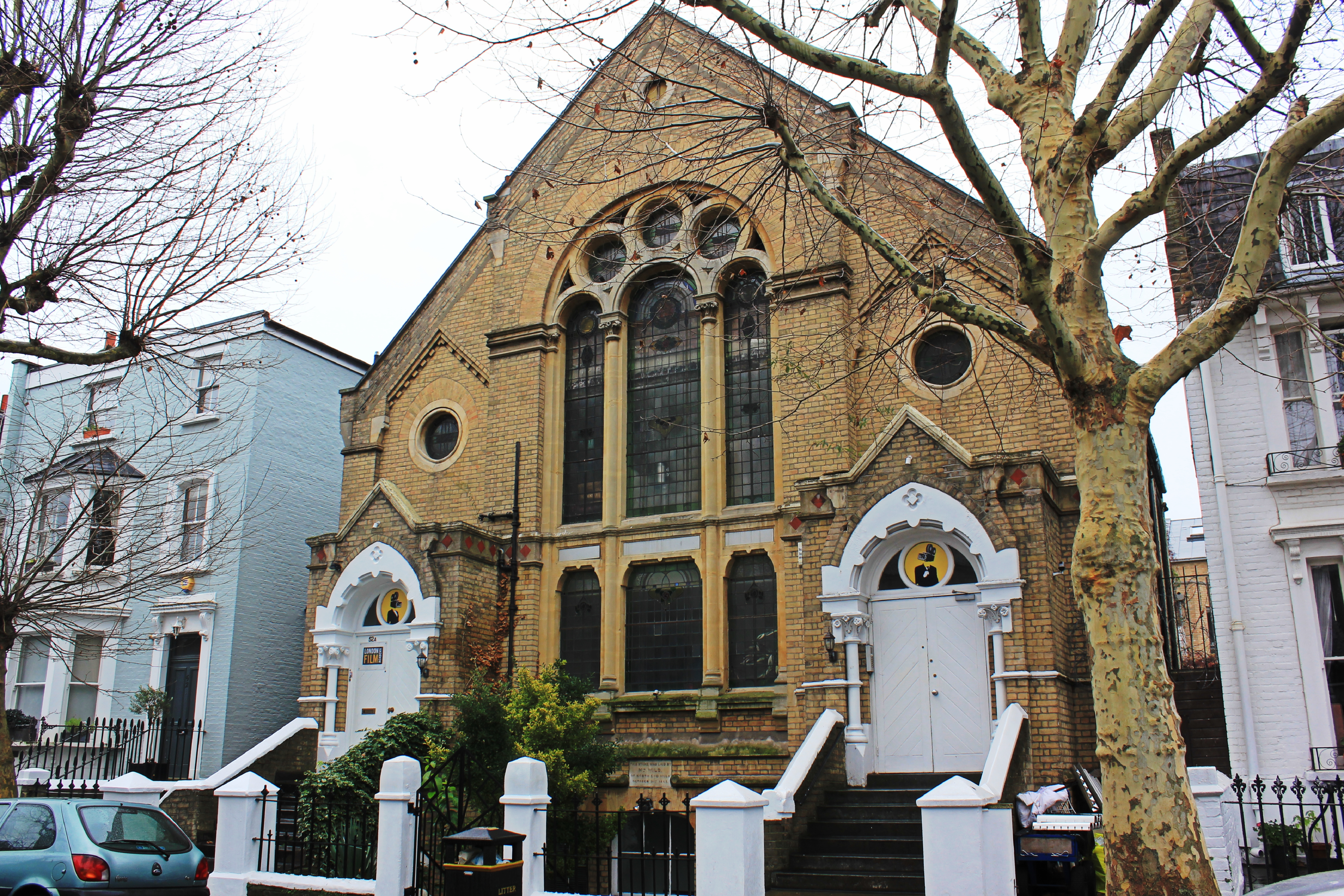 A photo of the London Film Academy.